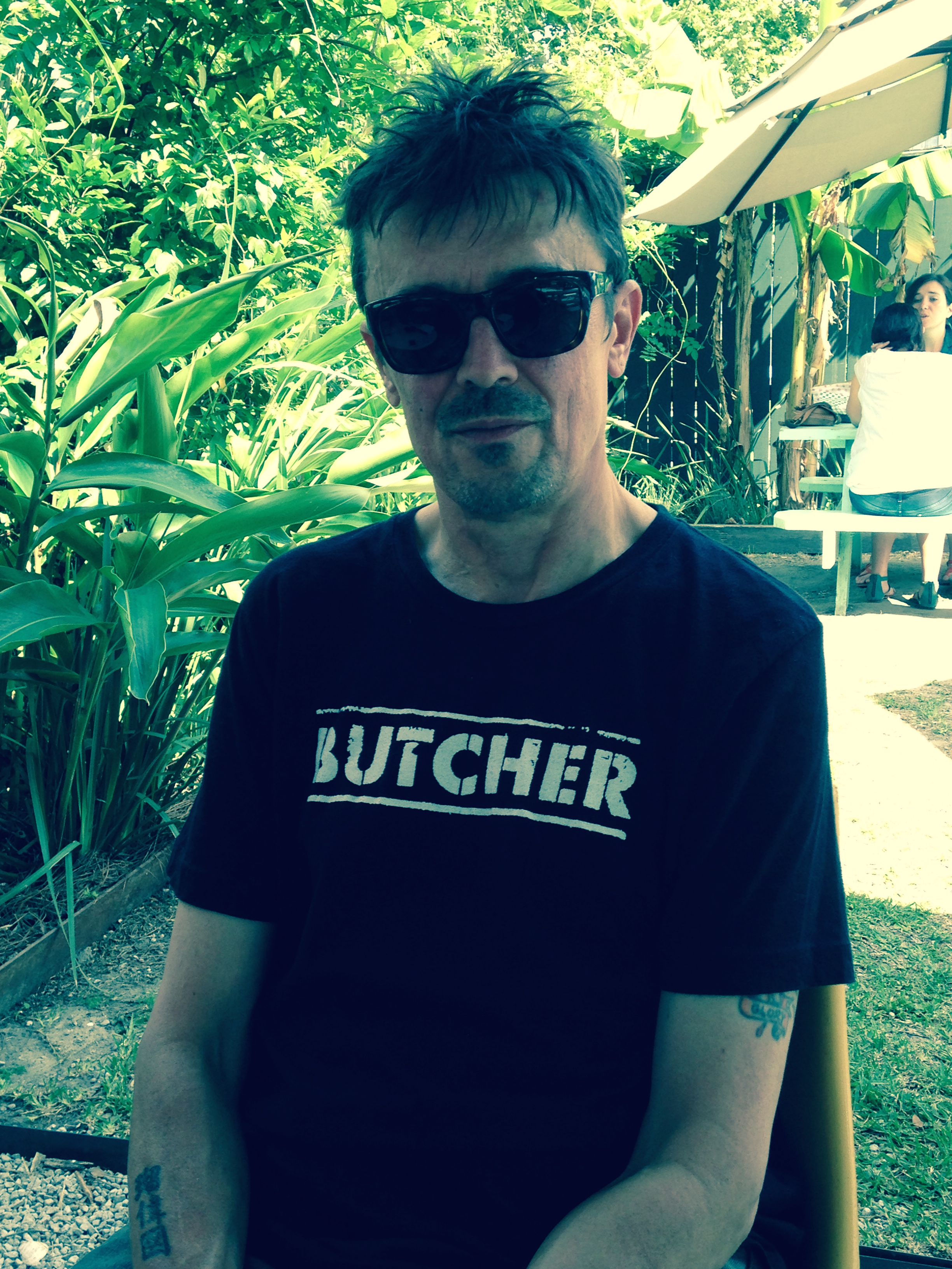 Spider Stacy in New Orleans, 2015.